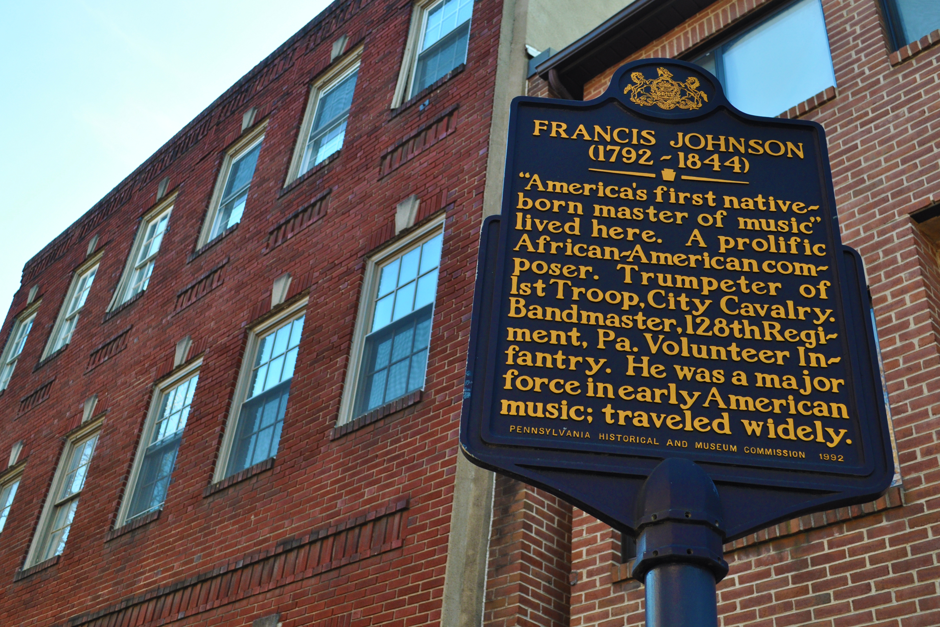 Francis Johnson (1792-1844). "America's first native-born master of music" lived here. A prolific African-American composer. Trumpeter of 1st Troop, City Cavalry. Bandmaster, 128th Regiment, Pa. Volunteer Infantry. He was a major force in early American music; traveled widely. (Historical Marker at 536 Pine St. Philadelphia PA - Pennsylvania Historical and Museum Commission 1992)